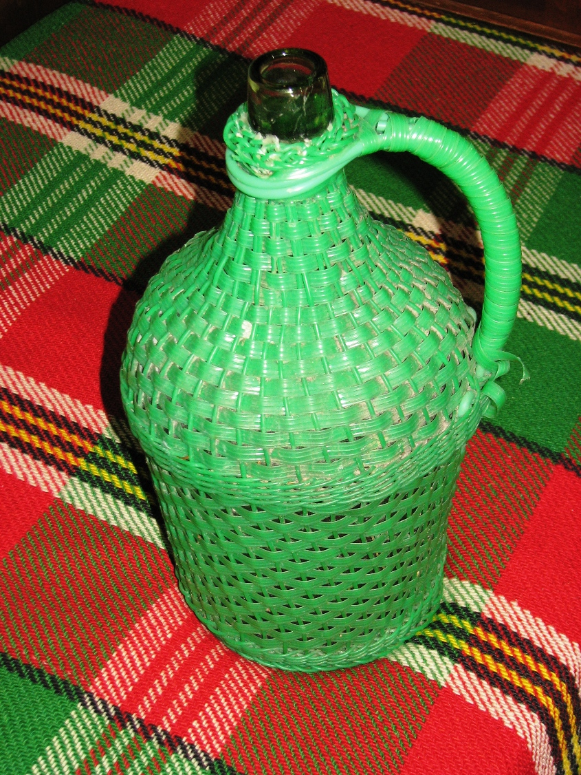 Domijohn